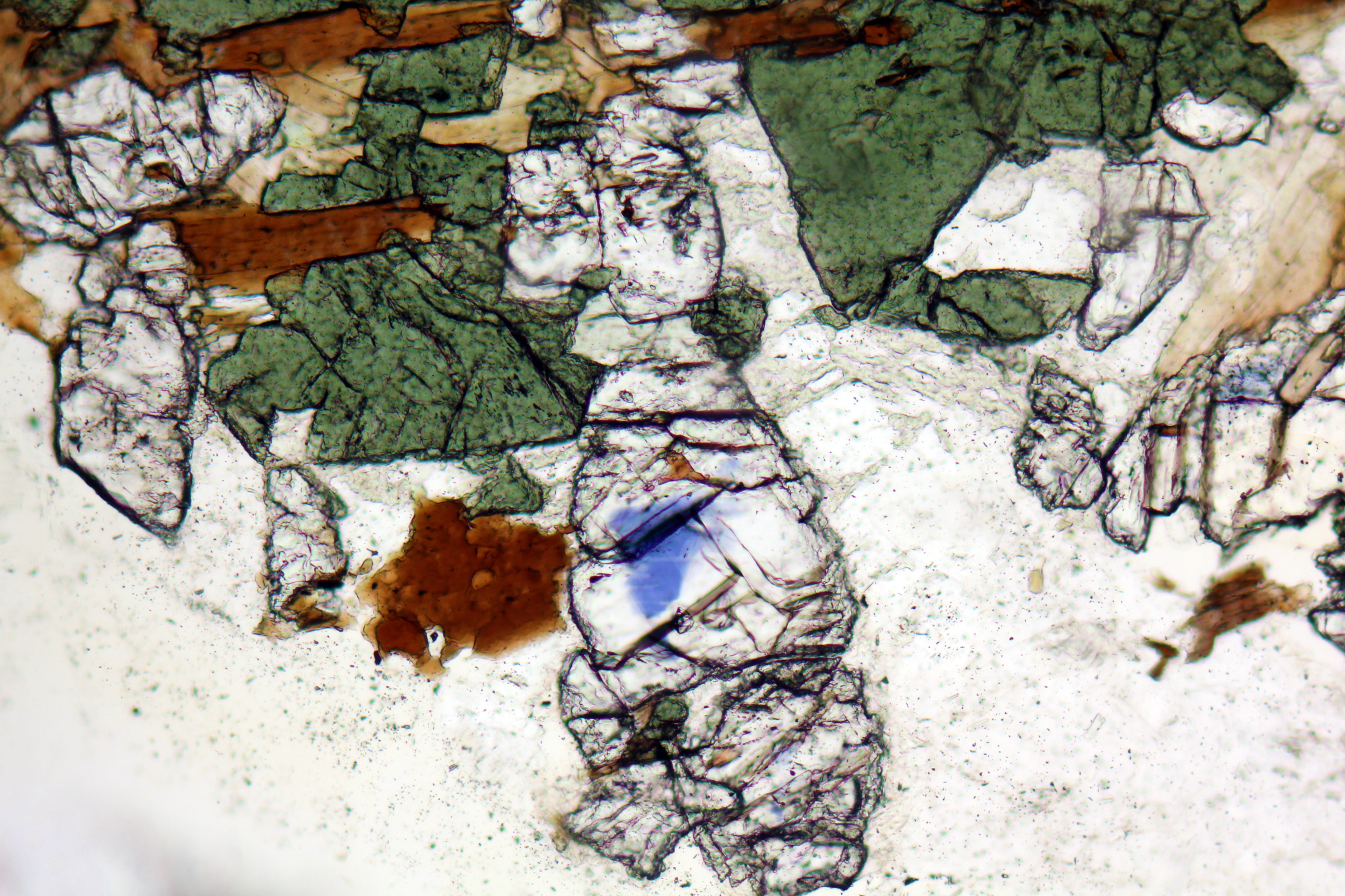 Corundum crystal (with blue core) biotite (brown) and green hyercinite spinel in a MME (Mafic microgranular enclaves) in the S.Andrea granite. Elba Island, Italy. Plane polarized light image, magnification 10x (Field of view = 2mm)